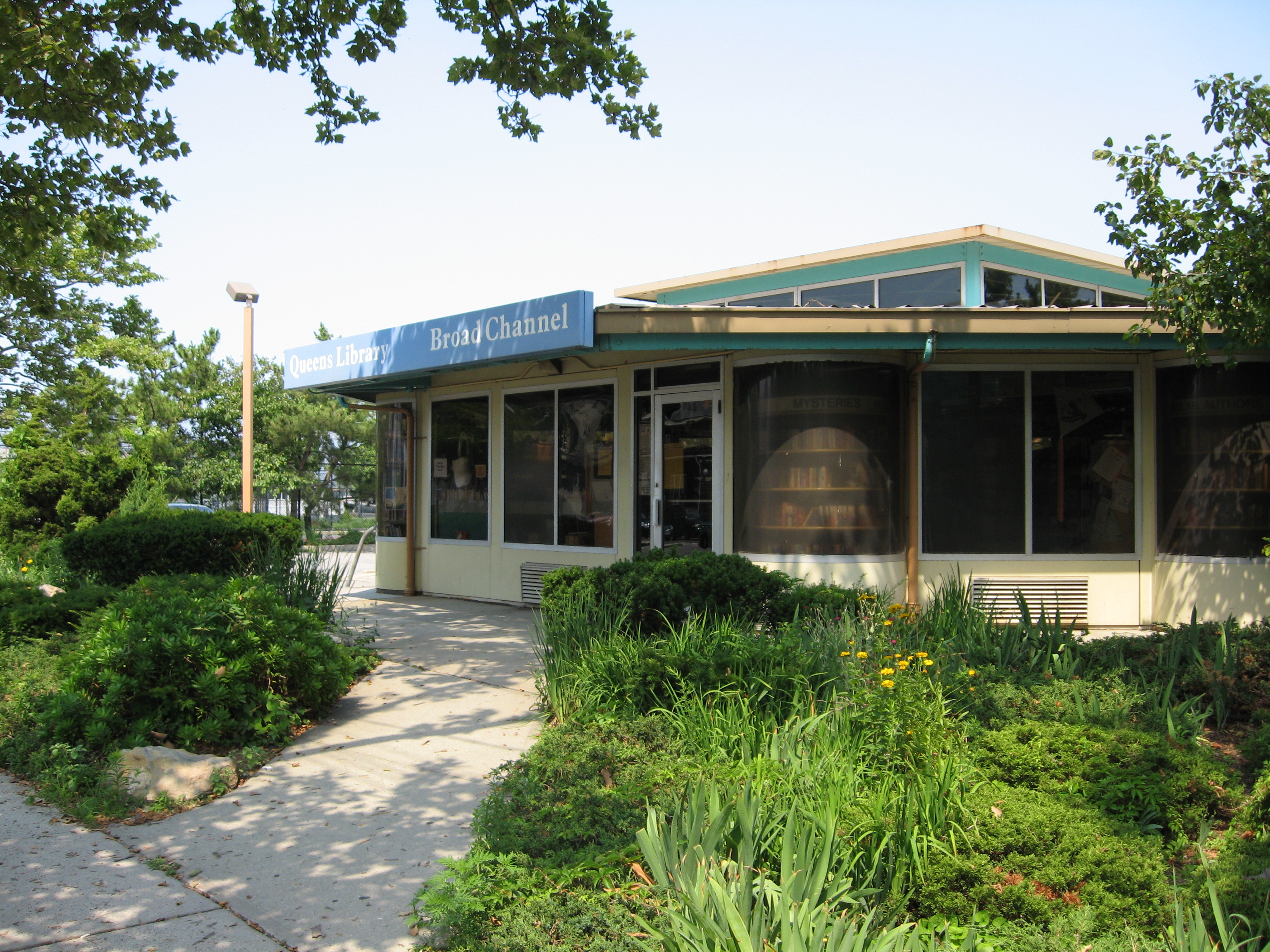 The Broad Channel branch of the Queens Borough Public Library, in New York City.